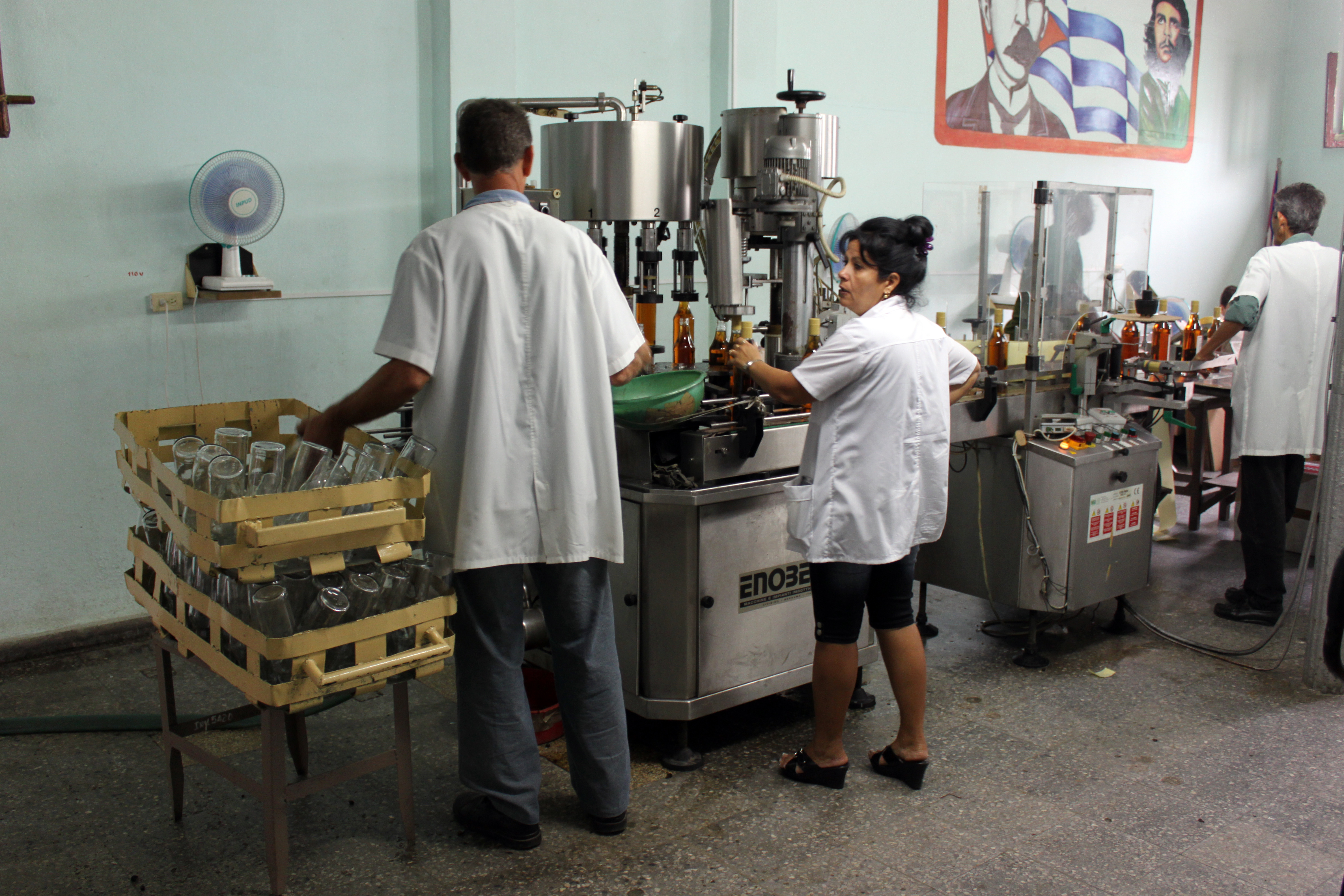 Beverage factory "Casa Garay", city and province of Pinar del Rio, Cuba